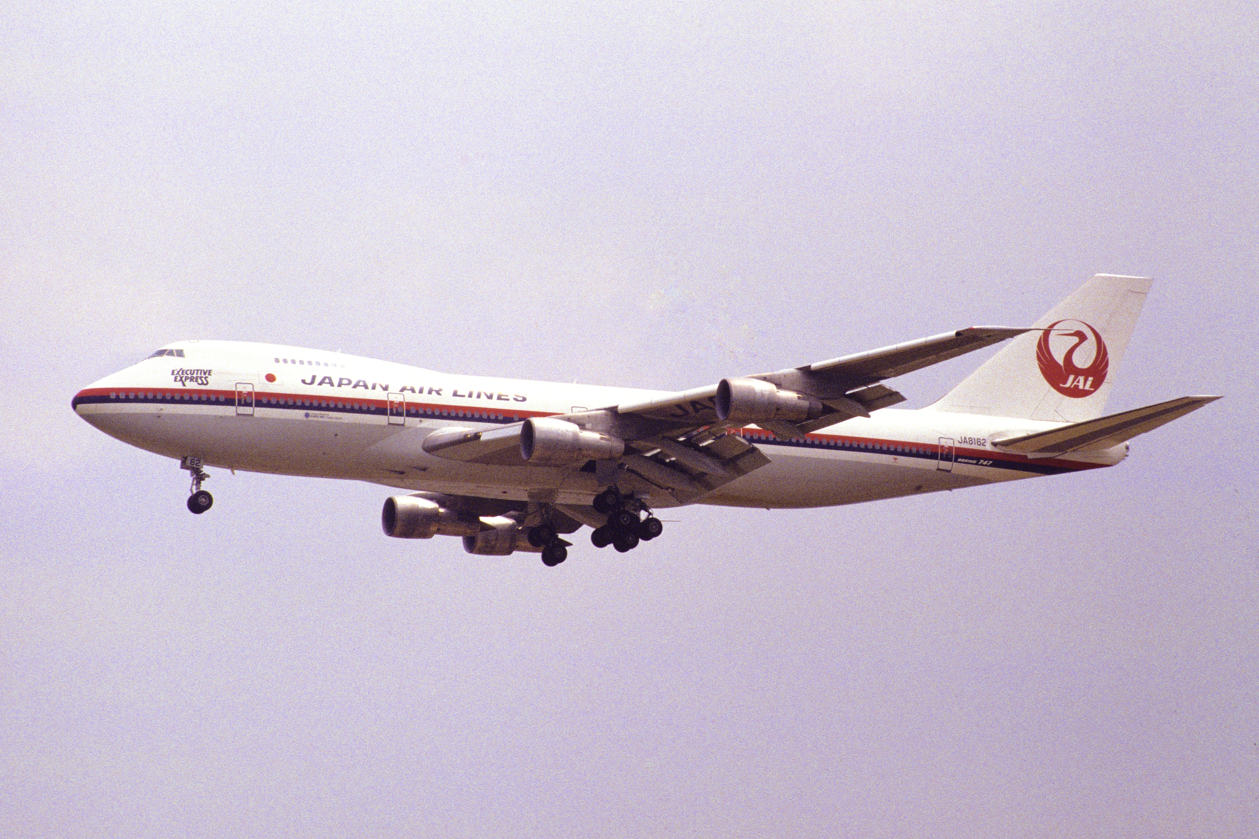 Old Pictures... Note the "Executive Express" sticker. JAL used 747-246Bs with extra fuel tanks for Tokyo-New York routes in 1980s.